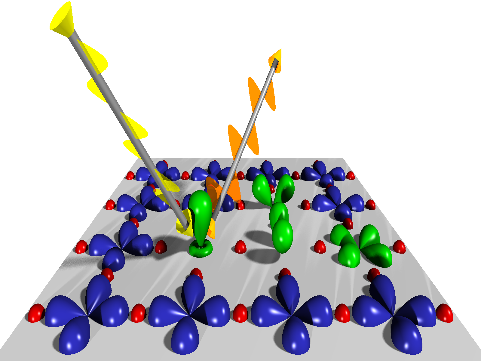 The figure (generated by POV-Ray) shows excitations of copper 3d orbitals on the CuO2-plane of a high Tc superconductor; The ground state (blue) is x2-y2 orbitals; the excited orbitals are in green; the arrows illustrate inelastic x-ray spectroscopy; further details